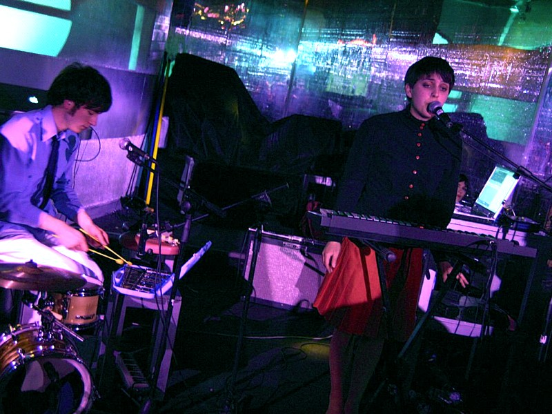 Bobby Baby @ Motron Festival in Modena, Italy